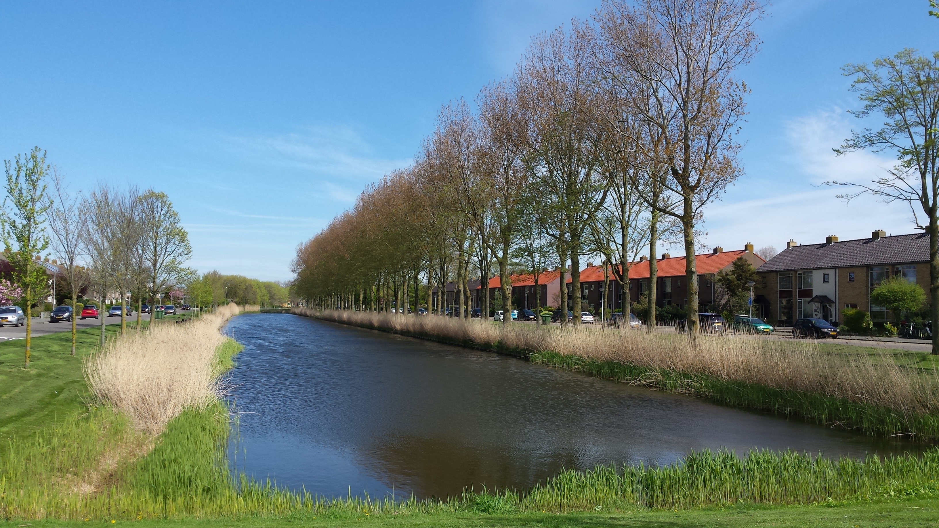 Water and street De Schooten in Den Helder